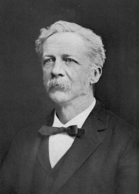 Portrait of Henry Morton, 19th-Century scientist and 1st President of Stevens Institute of Technology in Hoboken, NJ, USA